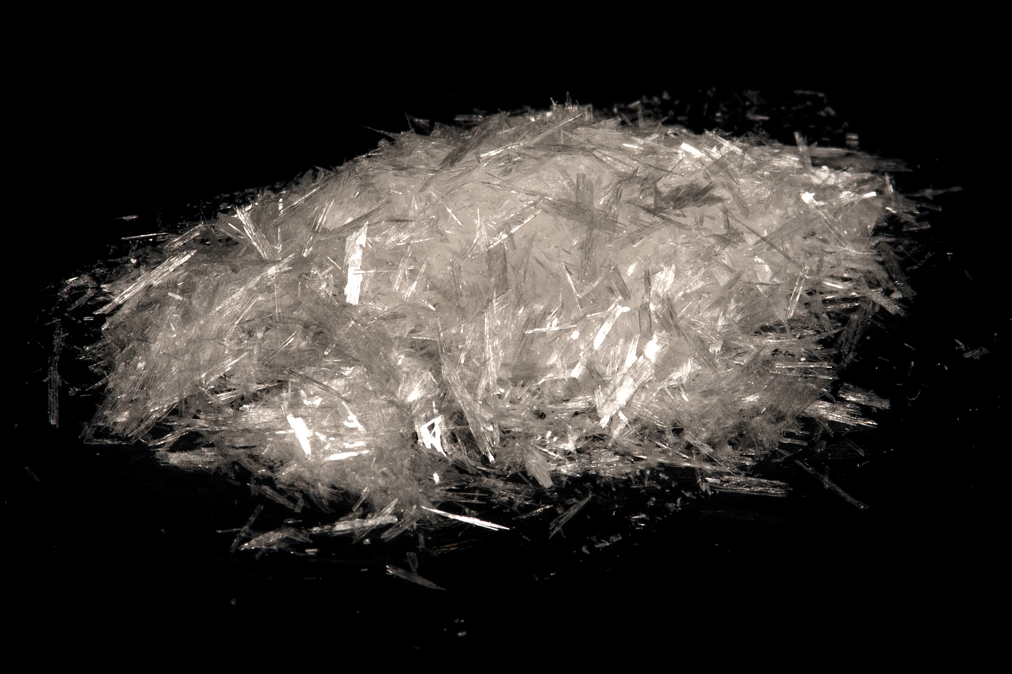 Benzoic acid recrystallized from hot water, about ½g.